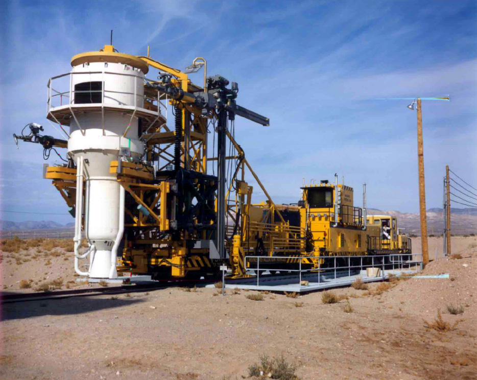 Nevada Test Site - Nuclear Rocket Development Station. Wooden Mockup of NERVA engine on carrier near E-MAD.